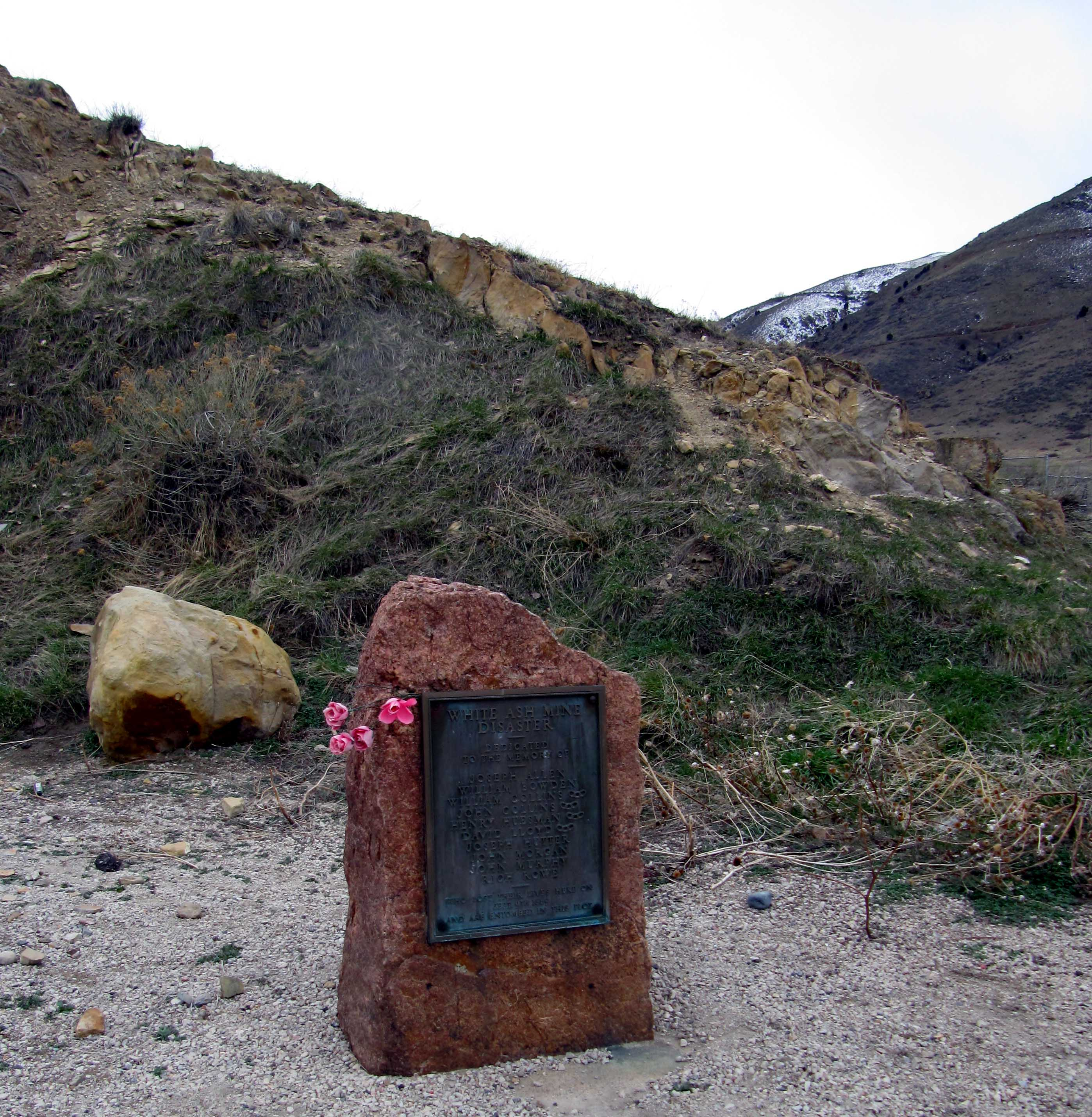 The marker commemorating the ten men who died in the White Ash Mine disaster in Golden, Colorado.